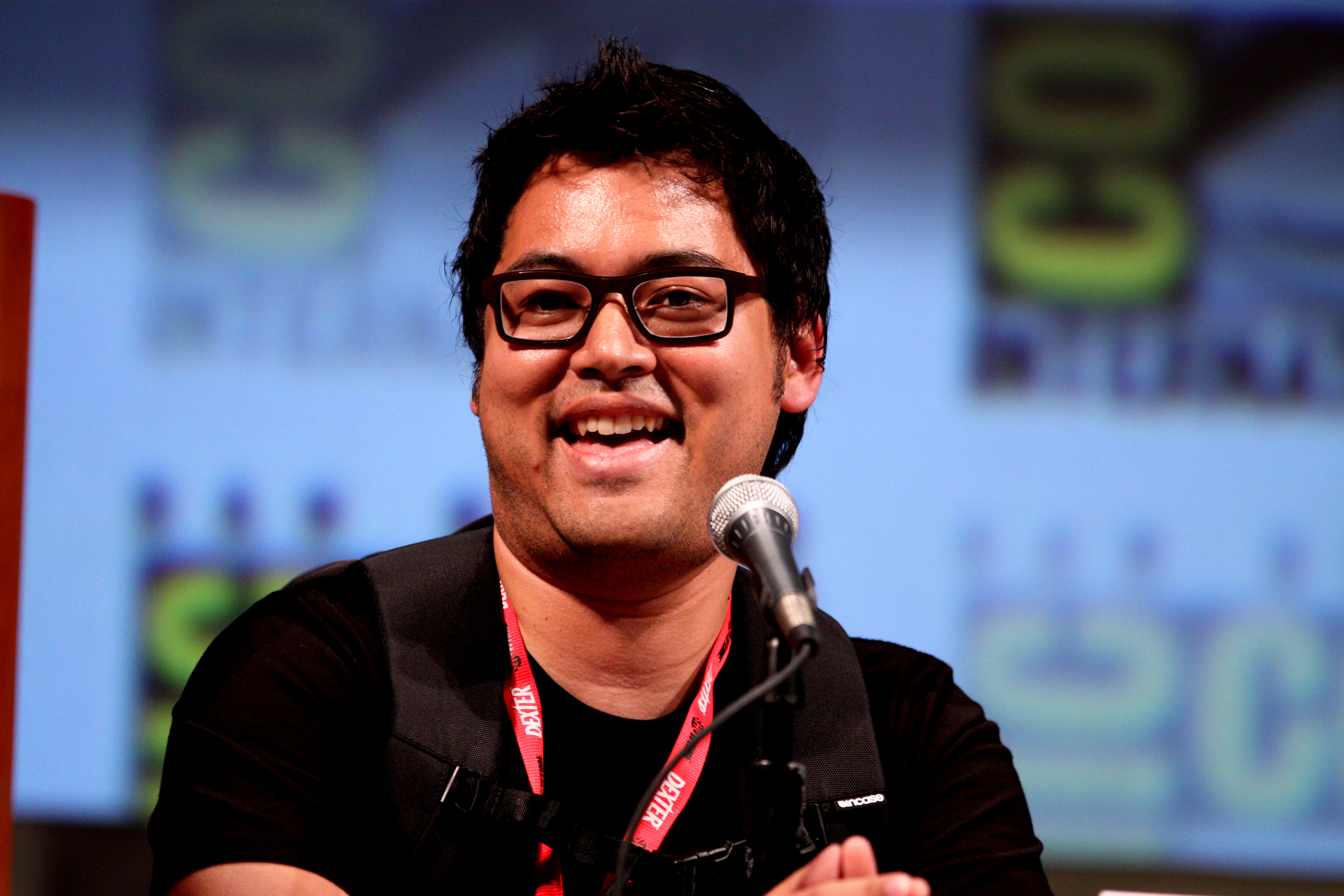 Artist Bryan Lee O'Malley on the Scott Pilgrim vs. the World panel at the 2010 San Diego Comic Con in San Diego, California.